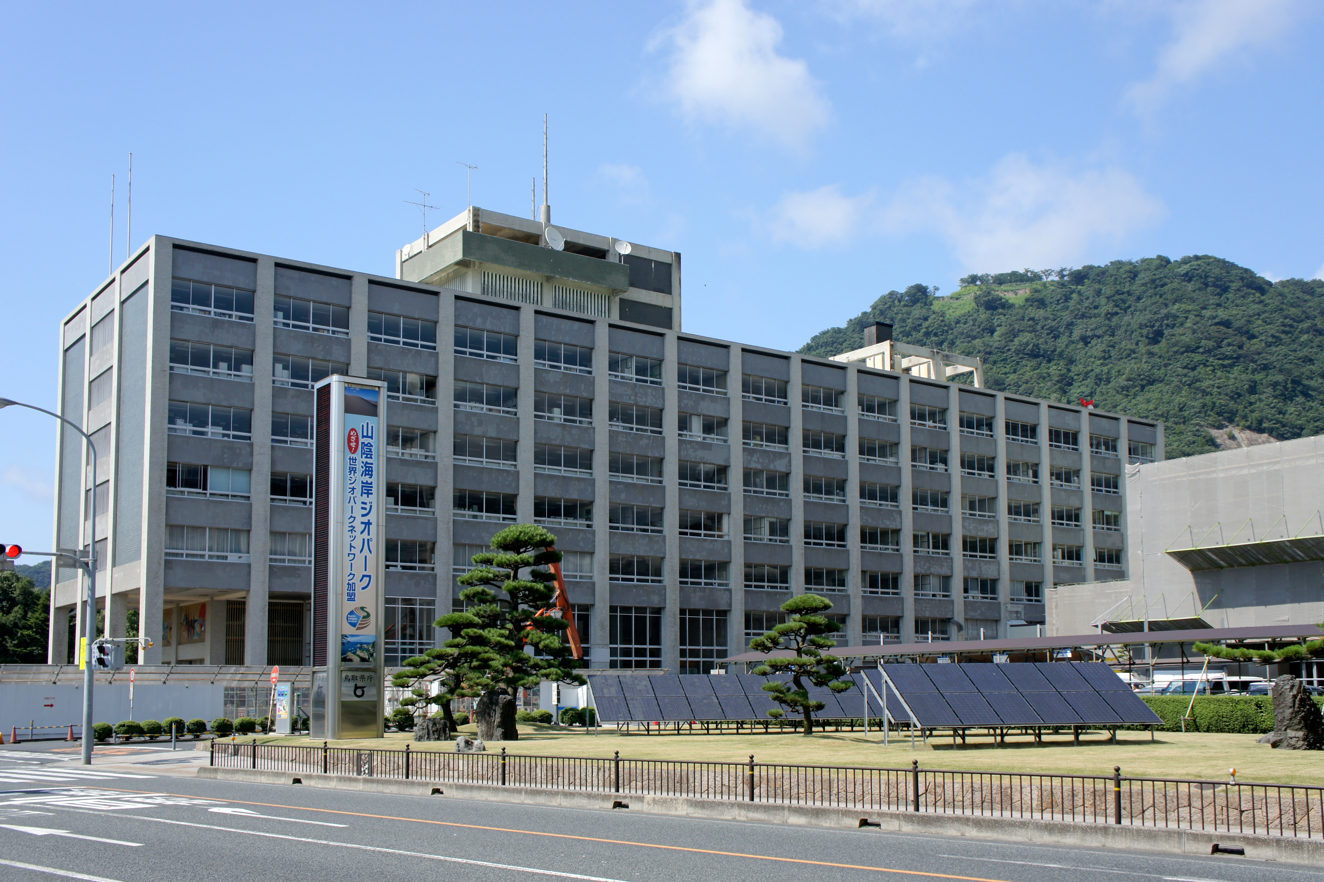 Tottori Prefectural Office Building in Tottori, Tottori prefecture, Japan.